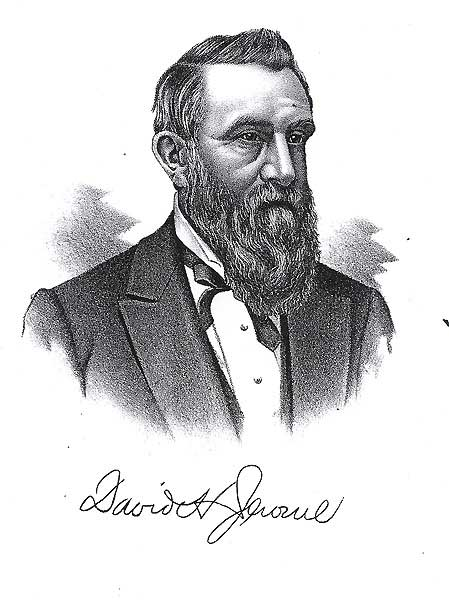 David Jerome, 18th Governor of Michigan